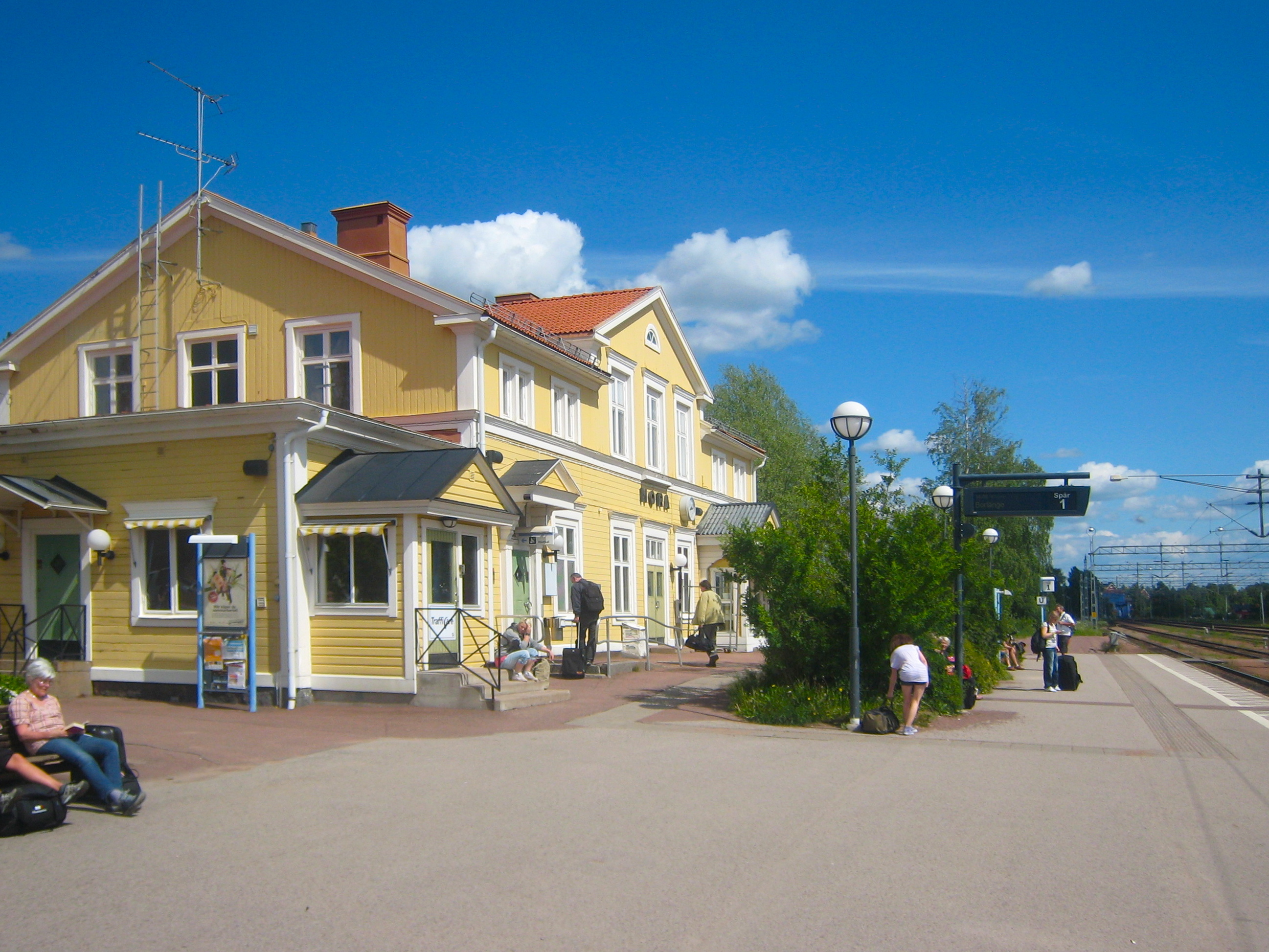 Mora Järnvägsstation.